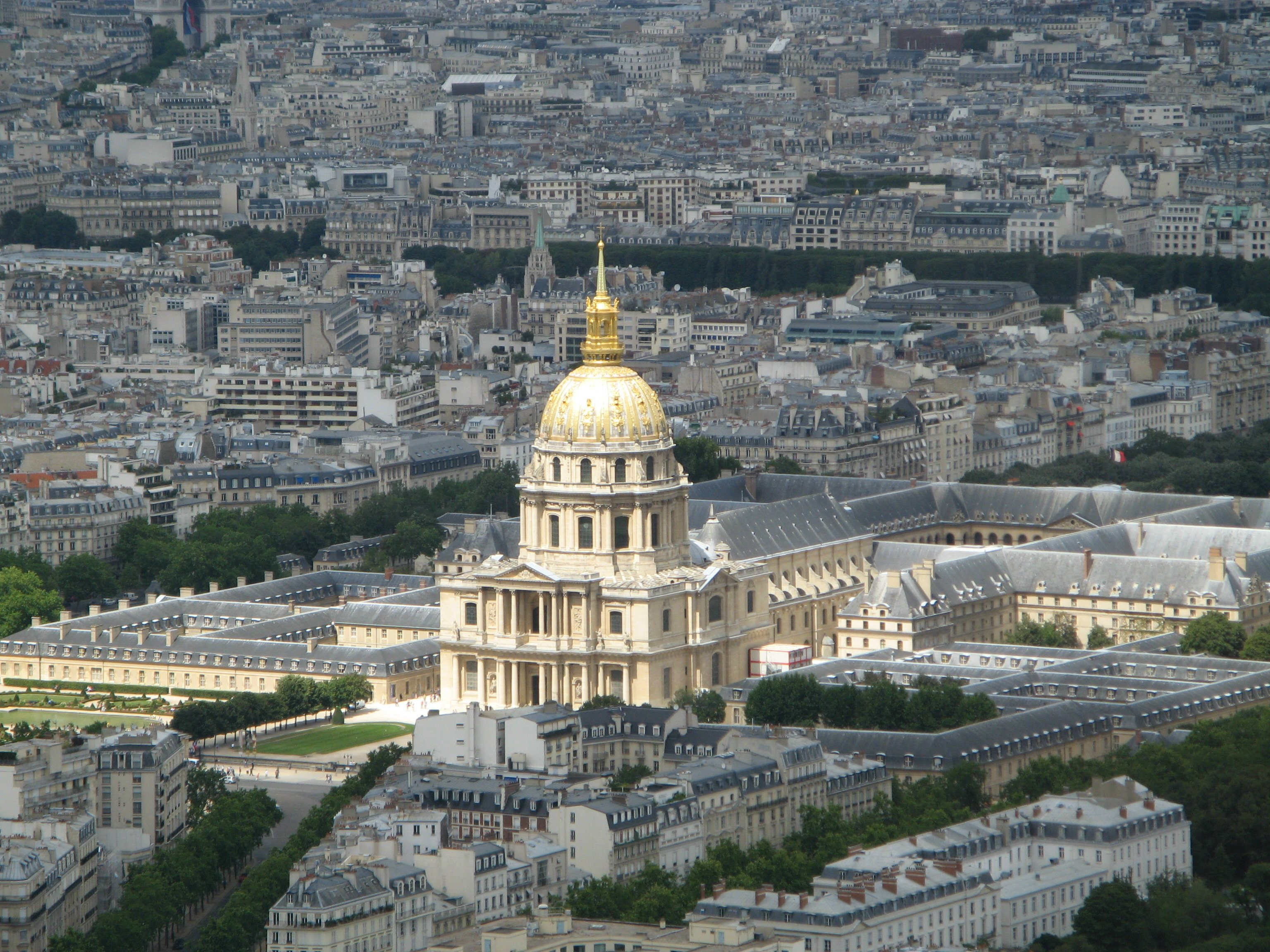 Hotel des Invalides seen from the Tour Montparnasse